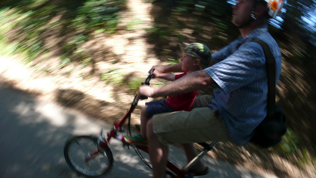 Father with his son on Itchair during a Brompton Tour in Spain